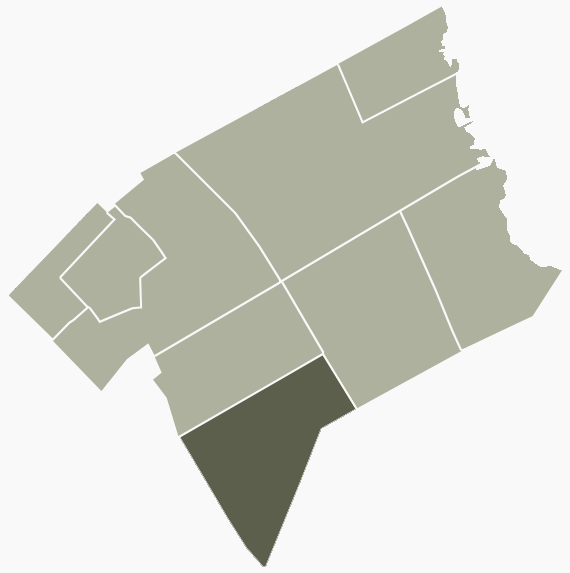 Map of the Vicente López's neighborhood, Villa Martelli.